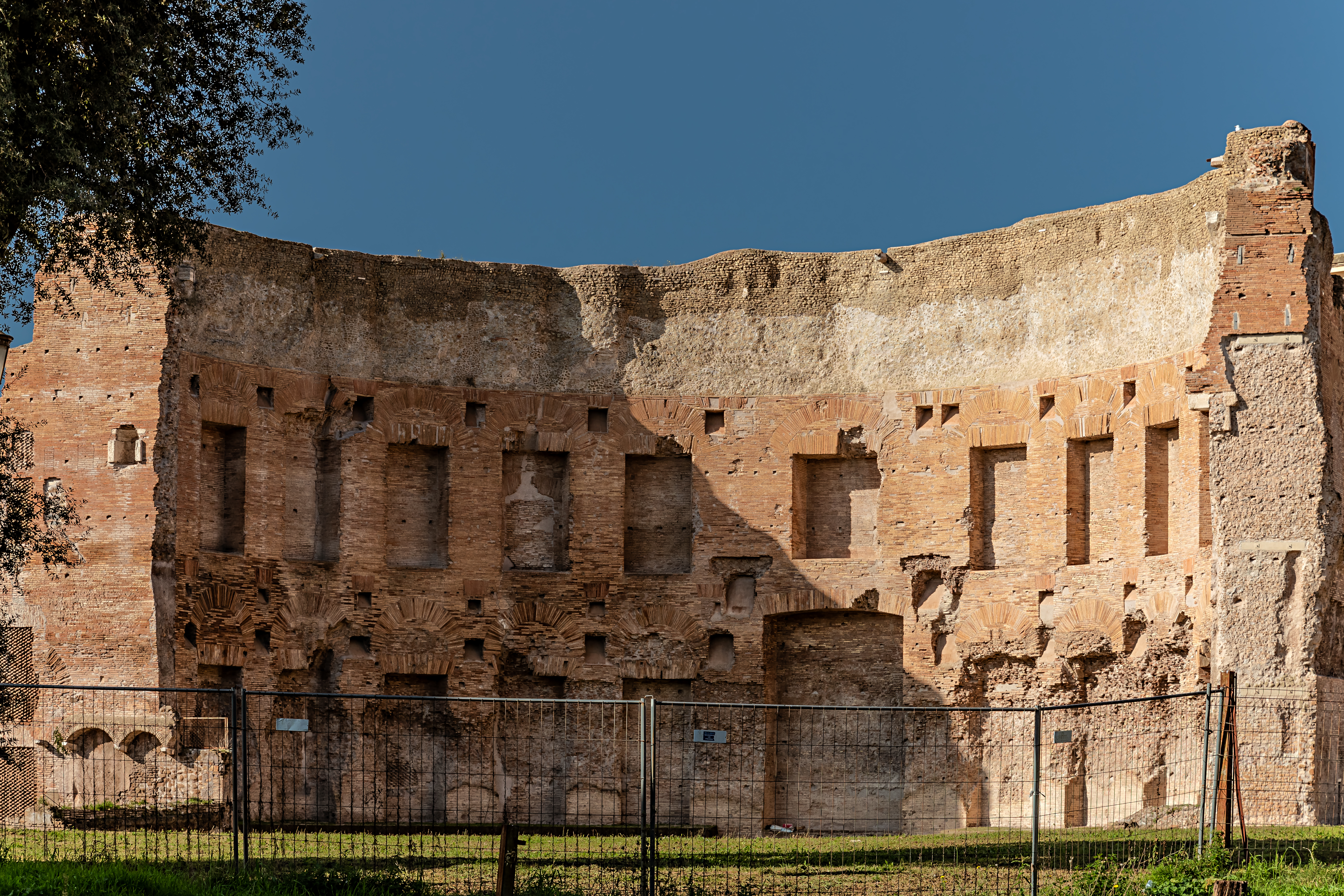 An exedra of the Trajan Baths, which was laid over the palace area (Domus Aurea) of Nero